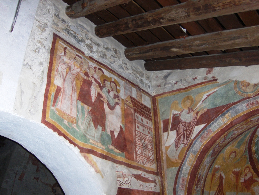 fresco in the left side